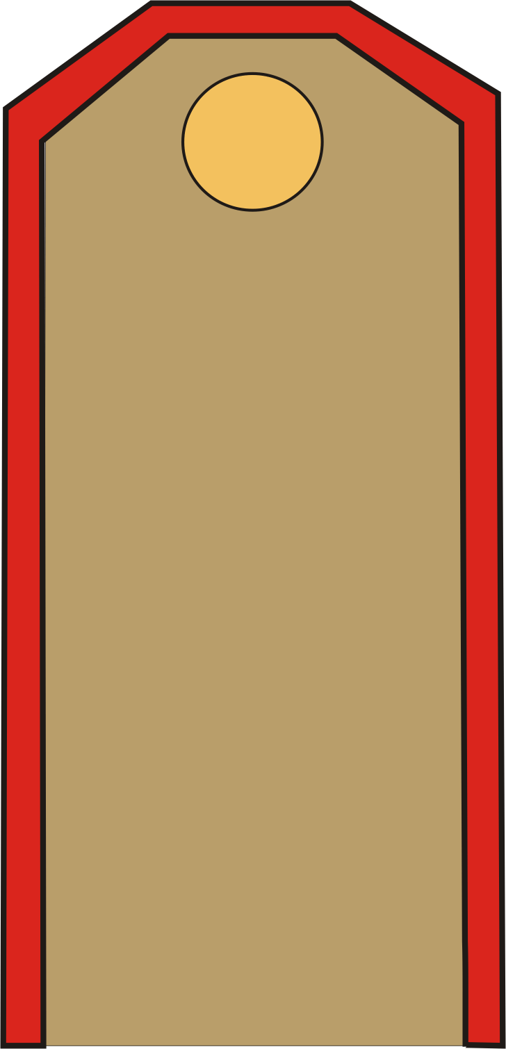 Russian rank insignia (1943-1955), here "Private" (OR1) – shoulder strap Army (infantry, motorized infantry) field uniform, color khaki.